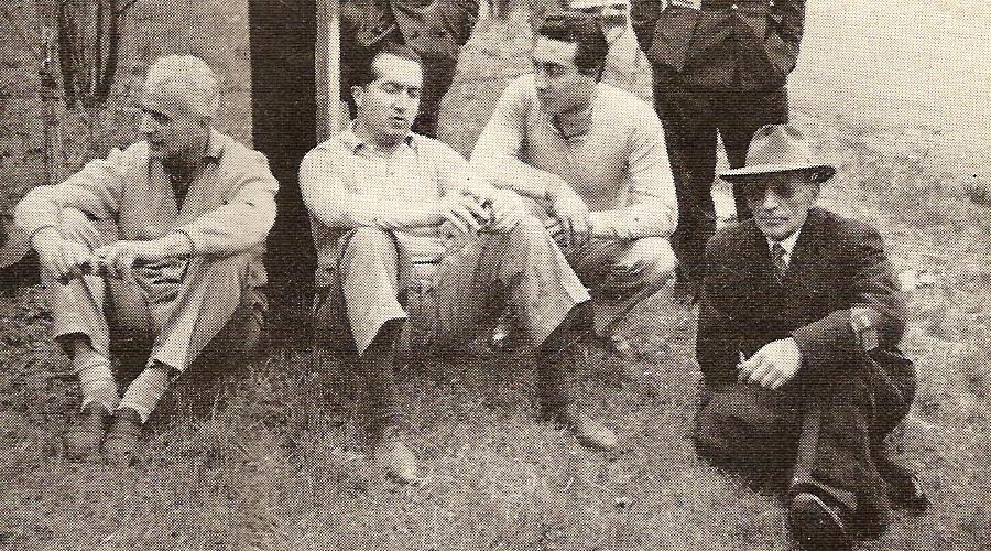 Alberto Ascari in a moment of relaxation with friends Luigi Villoresi (left), Eugenio Castellotti (right) and the engineer Vittorio Jano